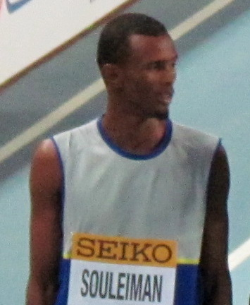 The 2012 IAAF World Indoor Championships in Athletics was the 14th edition of the global-level indoor track and field competition and was held between March 9–11, 2012 at the Ataköy Athletics Arena in Istanbul, Turkey. Ayanleh Souleiman